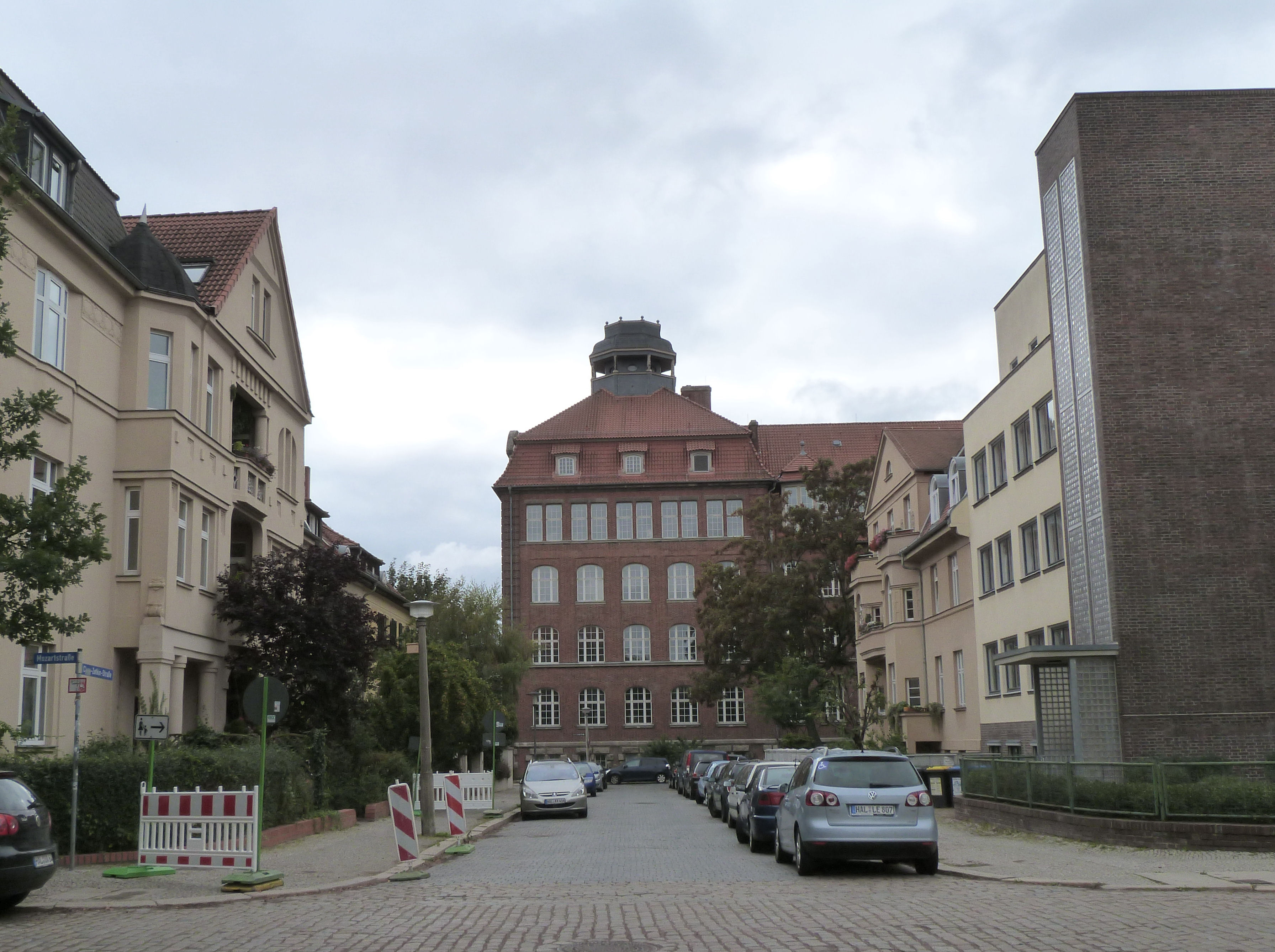 Clara-Zetkin-Strasse in Halle (Saale) with view to the Reil school